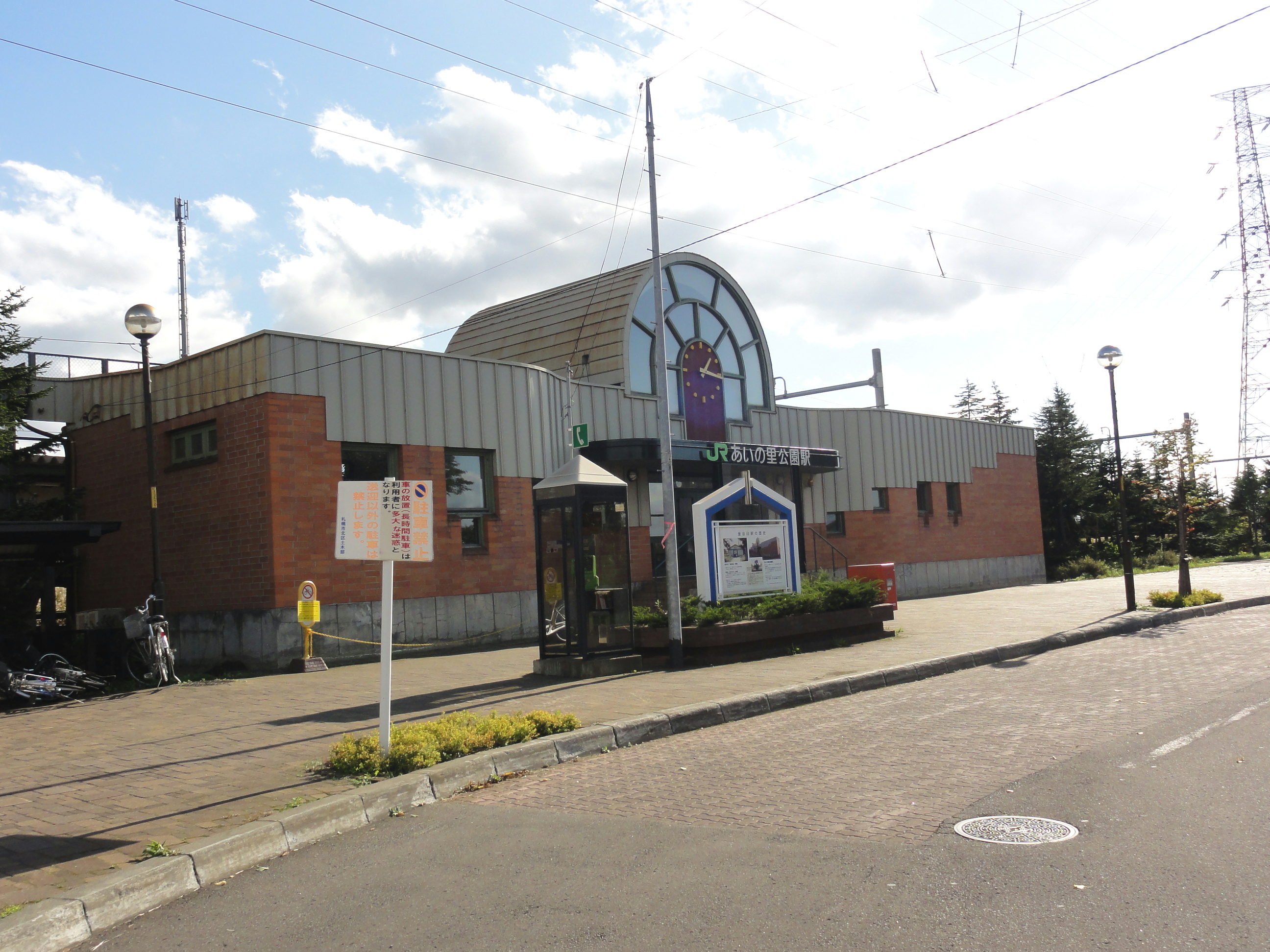 Ainosato-kōen Station on the Sasshō Line (Kita-ku, Sapporo, Hokkaido)